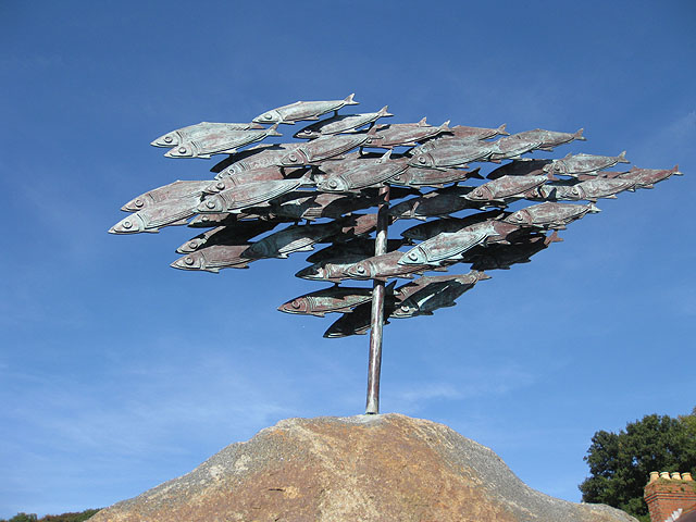 Fishguard Herrings. Reflecting the fact that Fishguard in Wales was once a busy fishing and trading port, the sculpture, by John Cleal, overlooks the harbour which is chiefly the home of pleasure craft these days. Erected 2006. For a fuller view and description, see 213778